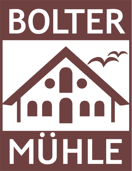 Logo der Bolter Mühle